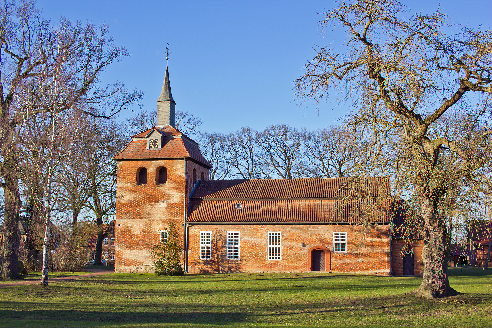 Church of the village Quickborn (district Lüchow-Dannenberg, northern Germany).